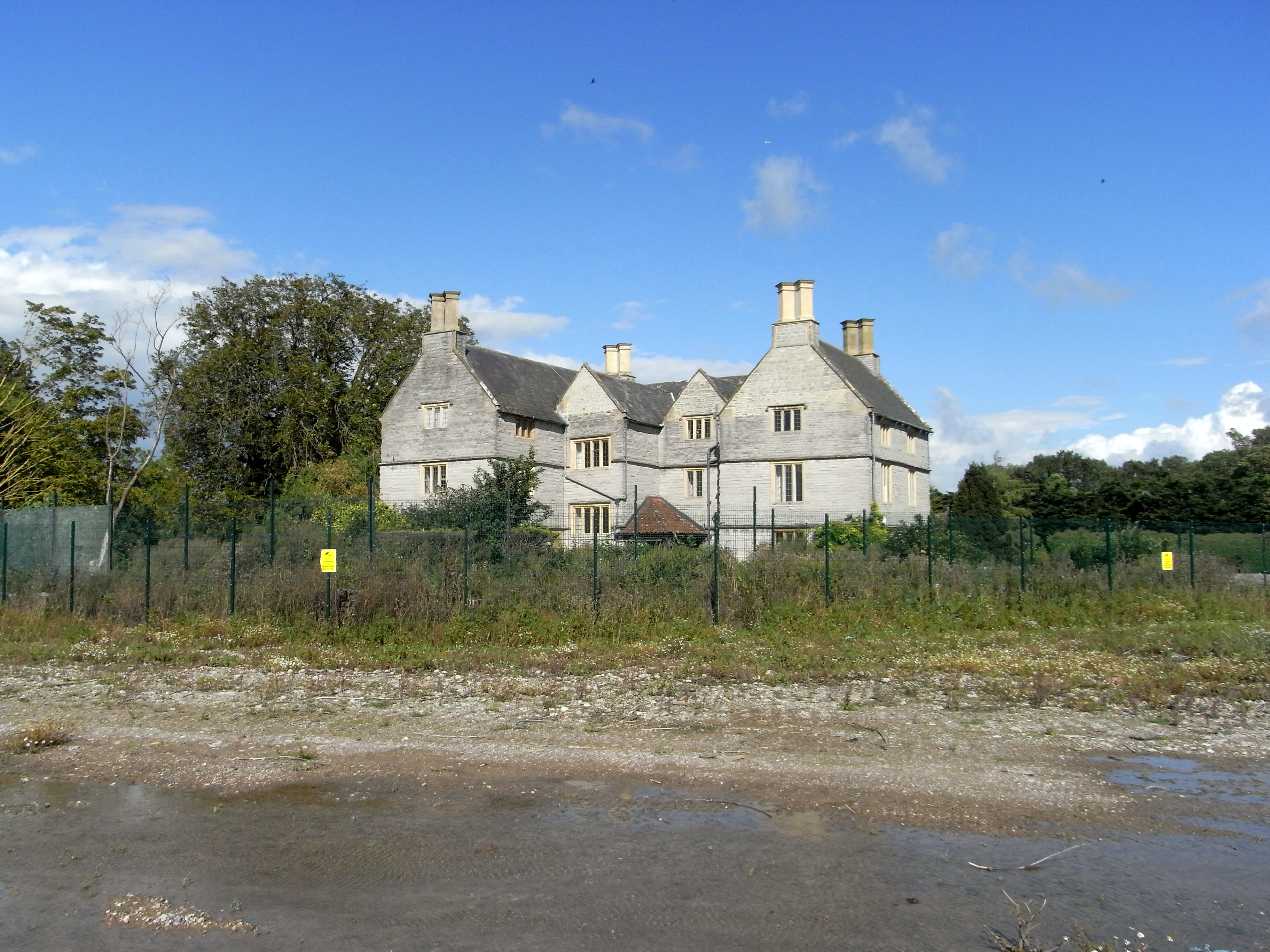 Sydenham Manor House, near Bridgwater, Somerset. Origin of de Sydenham family, later of Combe Sydenham; Orchard Sydenham; Combe, Dulverton; Brympton D'Evercy (Sydenham baronets); all in Somerset. In 2015 owned by Hinckley Point Nuclear Power Plant, which purchased the house with a large flat plot of land formerly occupied by factories, intended for construction of accommodation for workers on the proposed new nuclear power plant 12 miles away.